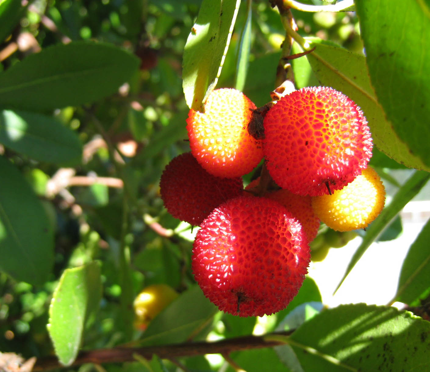 Arbutus unedo with red berries in Scotts Valley, CA.